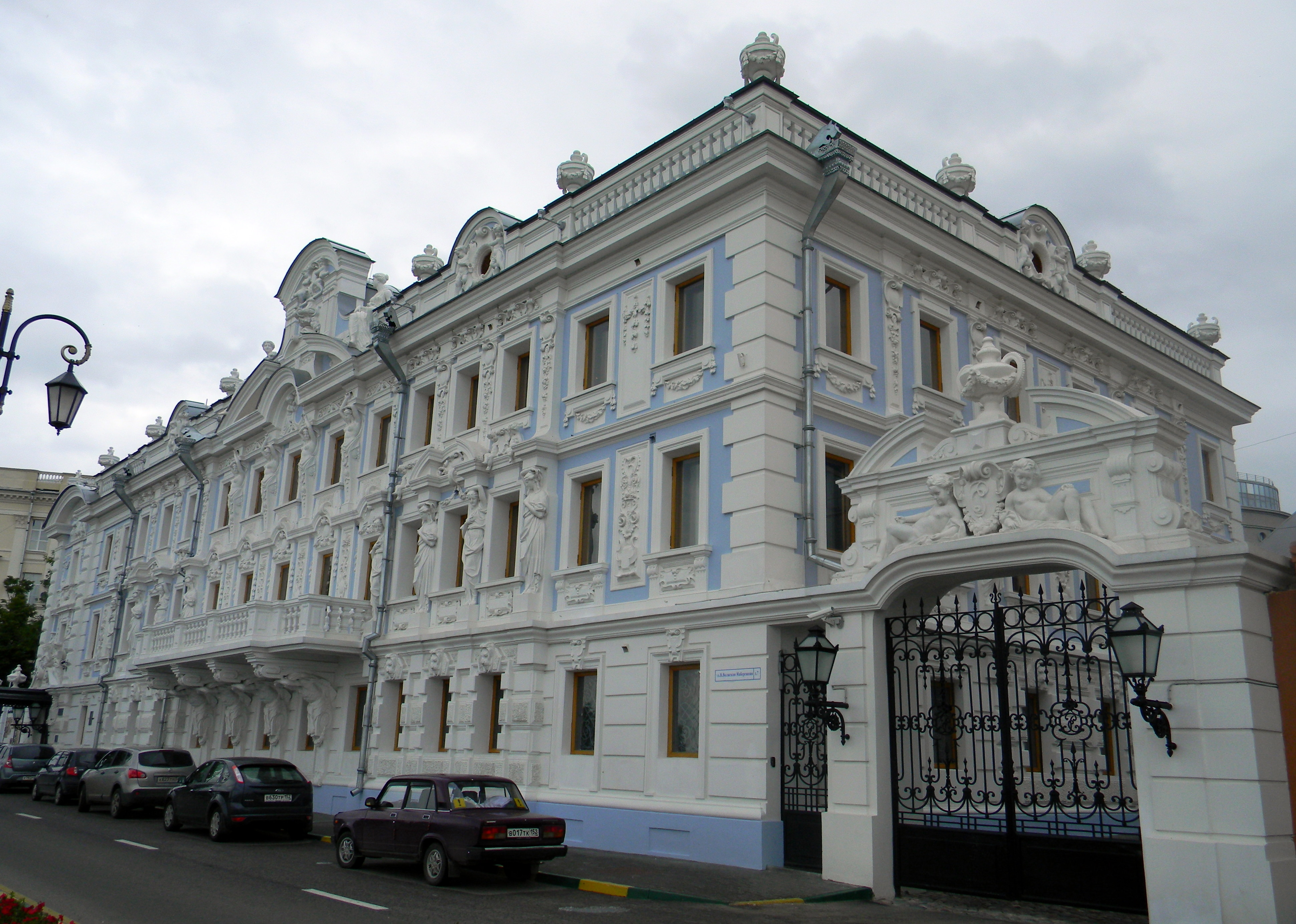 The mansion of the merchant Rukavishnikov. Now it is the administrative building of the Nizhegorodian State Museum of History and Archtecture